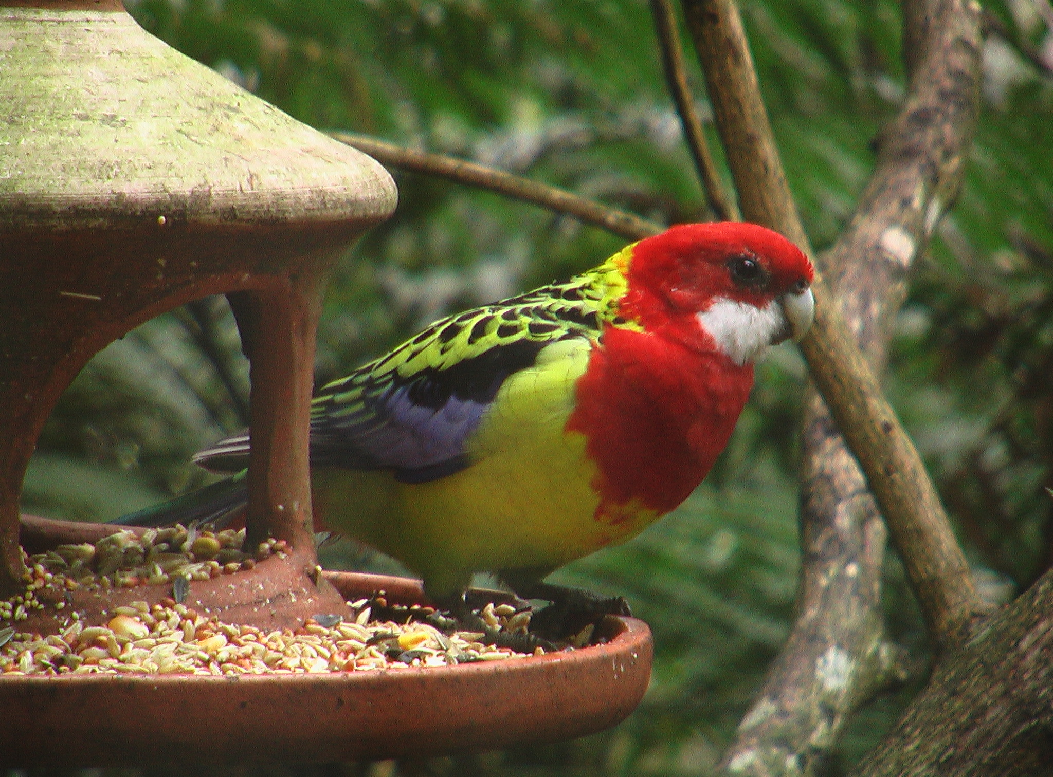 Eastern Rosella (Platycercus eximius) on a bird feeder.